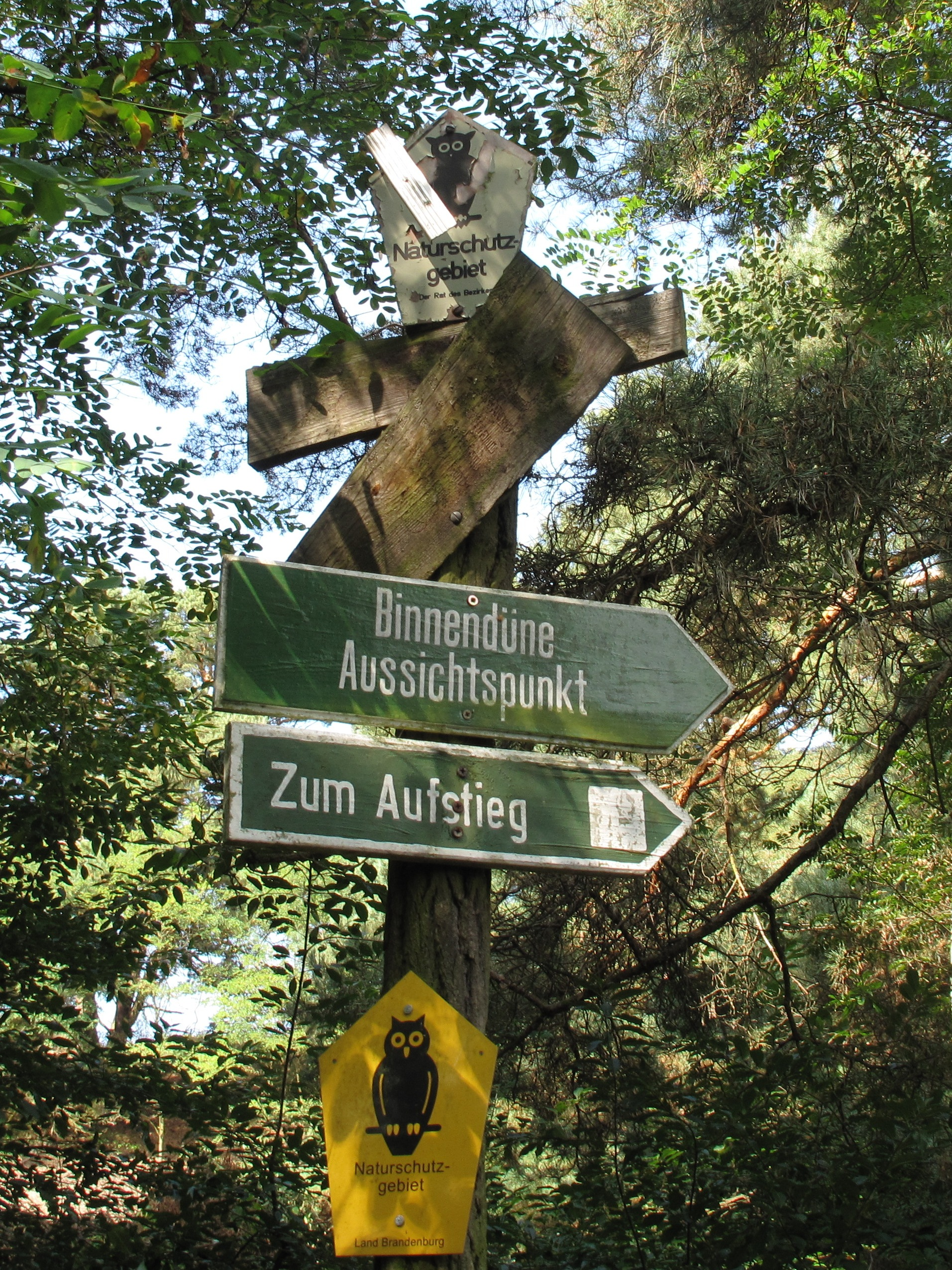 The „Binnendüne Waltersberge“ is one of the largest inland dunes in Brandenburg, Germany. The dune is situated in the town Storkow, District Oder-Spree, just over the eastern border of the Dahme-Heideseen Nature Park. The centre of the area, which covers about 14 hectare, is designated as a Naturschutzgebiet (protected area) and Natura 2000-area. Nearly just beside the northern bank of the Großer Storkower See (lake), rises above the dune with its largest peak, the Storkower Weinberg (69 metres), up to 32 metres over the sea.